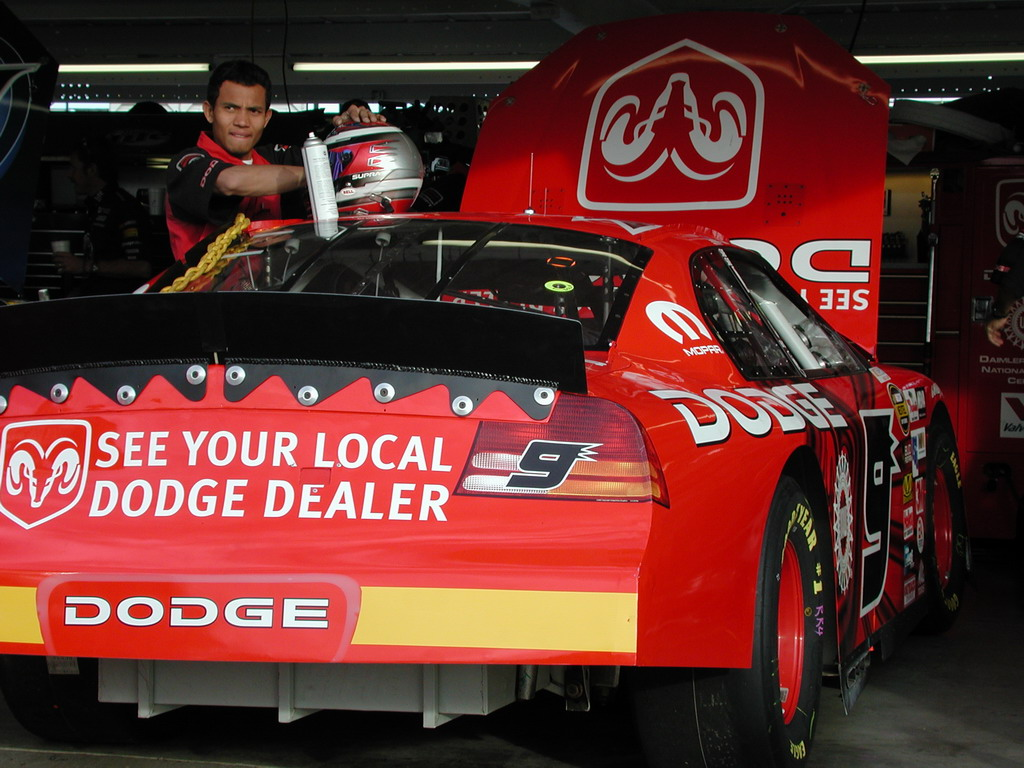 Kasey Kahne #9 getting ready; this guy was cleaning Kasey's helmet at the moment